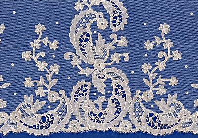 Scan of part of a stole of Carrickmacross lace. Generated for use in